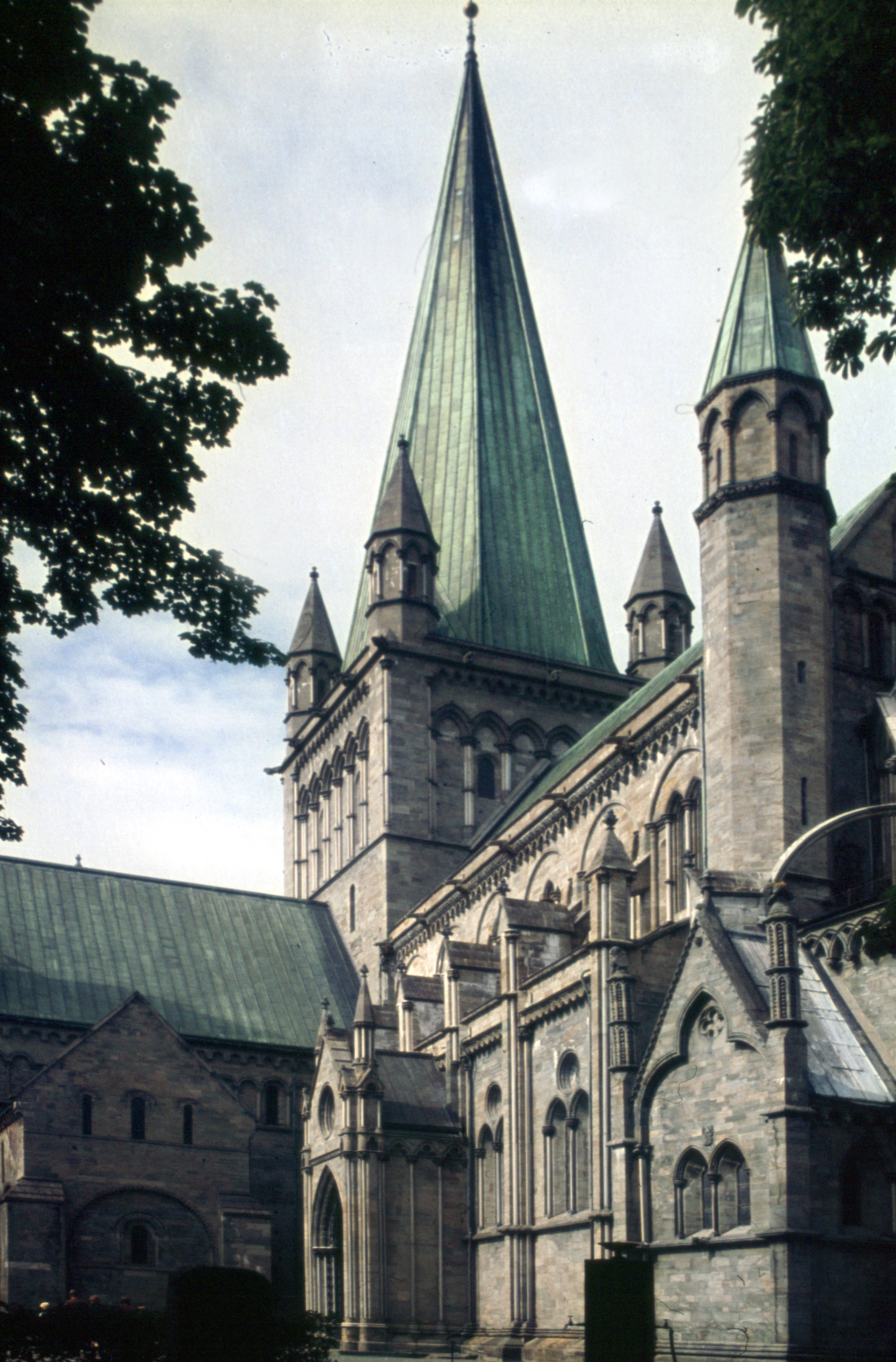 Nidaros Cathedral in Trondheim in Norway 1975